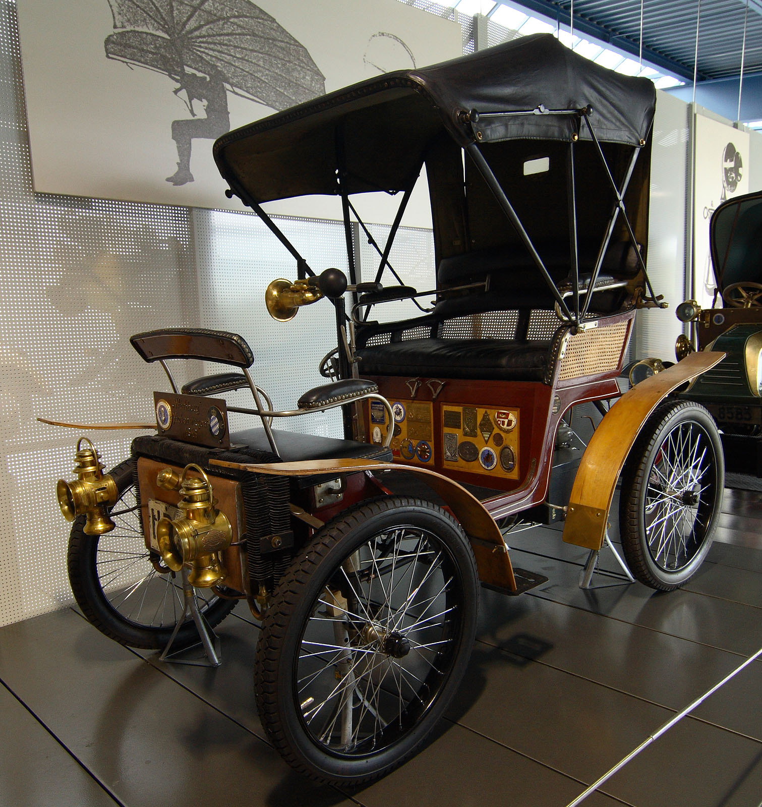 The 1898 “Wartburg” automobile from Fahrzeugfabrik Eisenach (FFE, later Automobilwerk Eisenach) at the EFA Museum for German Automobile History in Amerang. The “Wartburg” was a licensed model of the French “Decauville” car.